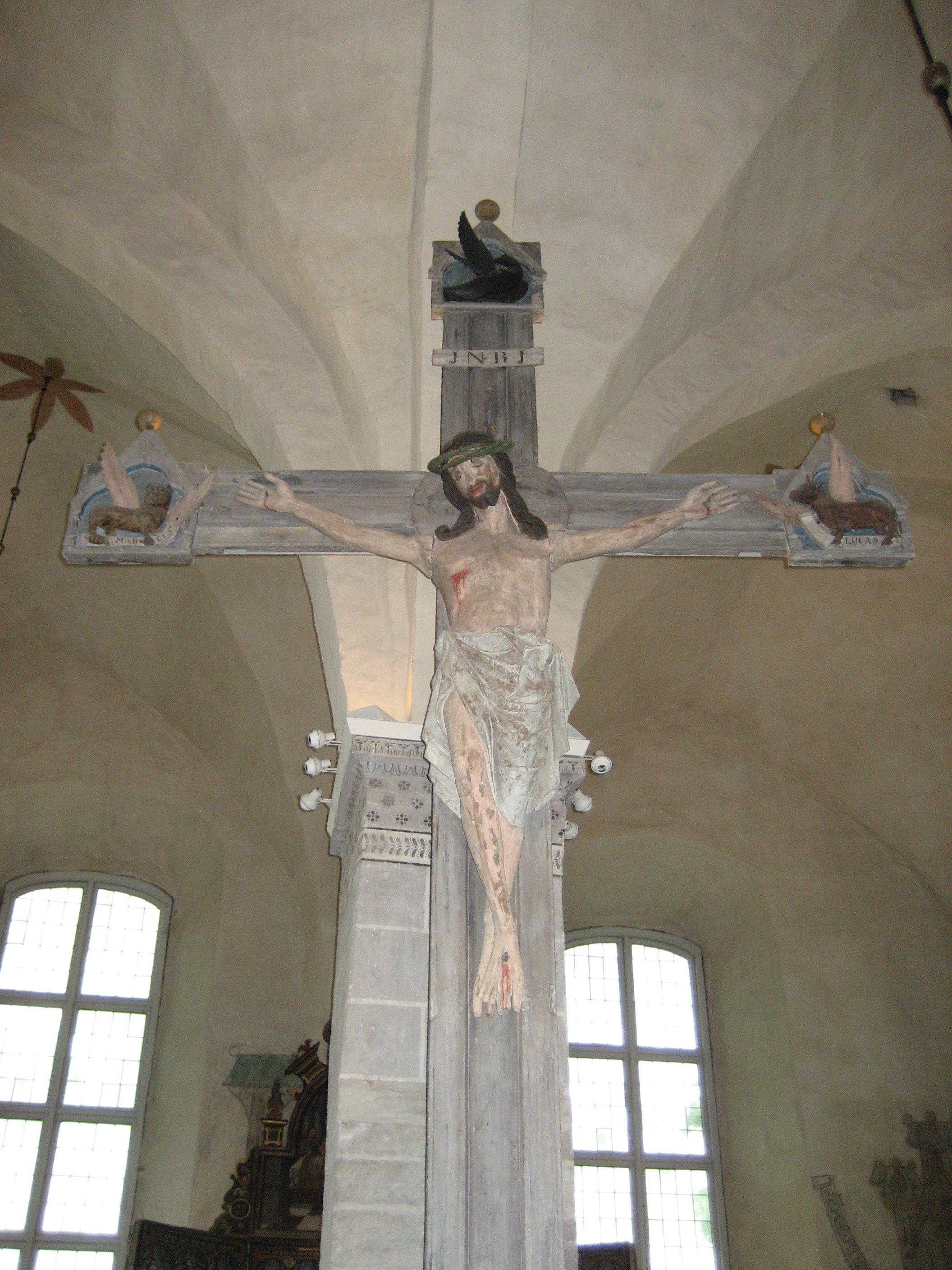 Crucifix in Sund Church, Åland, Finland